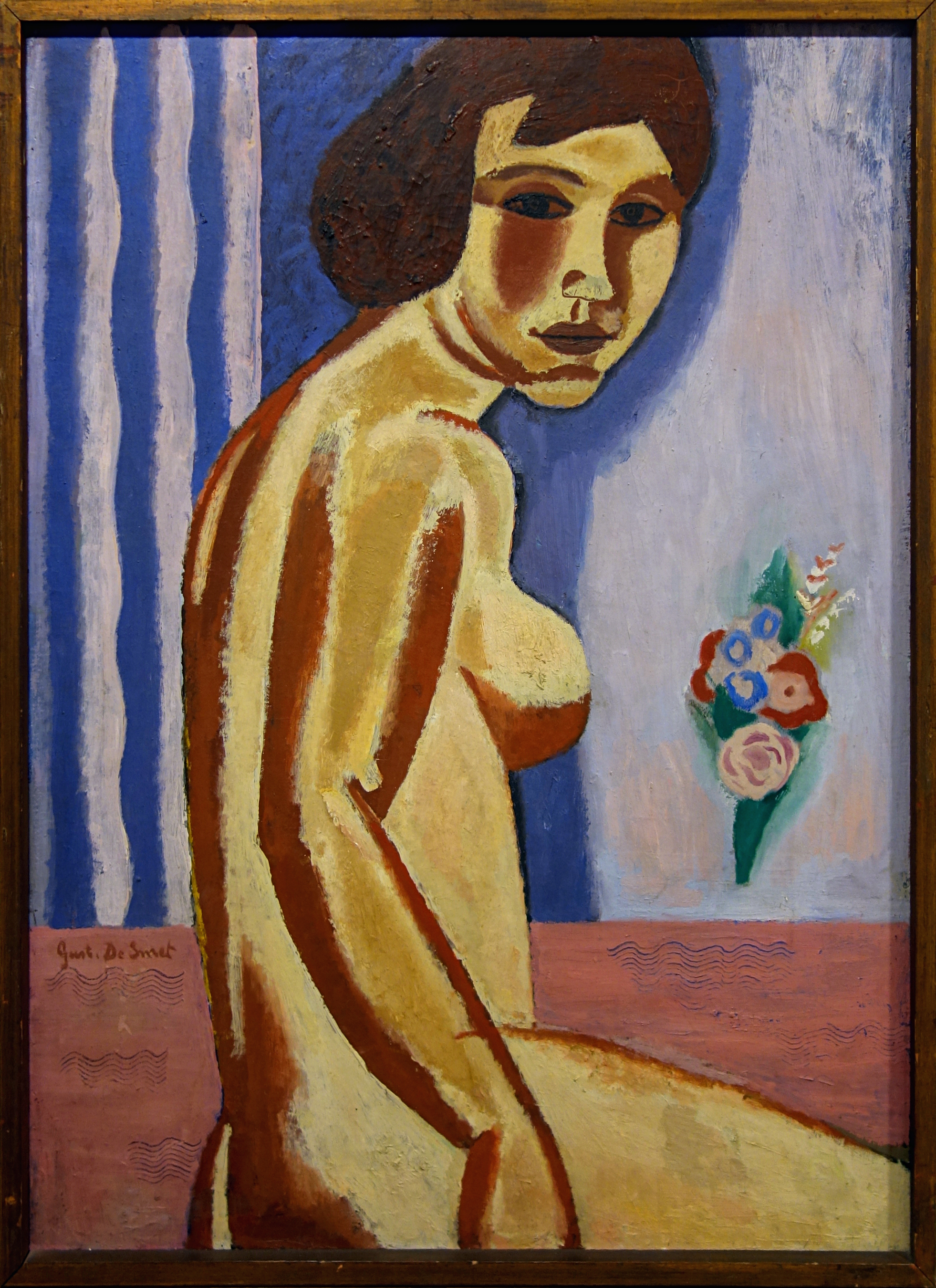 "Naked woman with flower bouquet" (1931), oil on canvas by the Belgian expressionist painter Gustave De Smet; collection MuZee, Ostend, Belgium